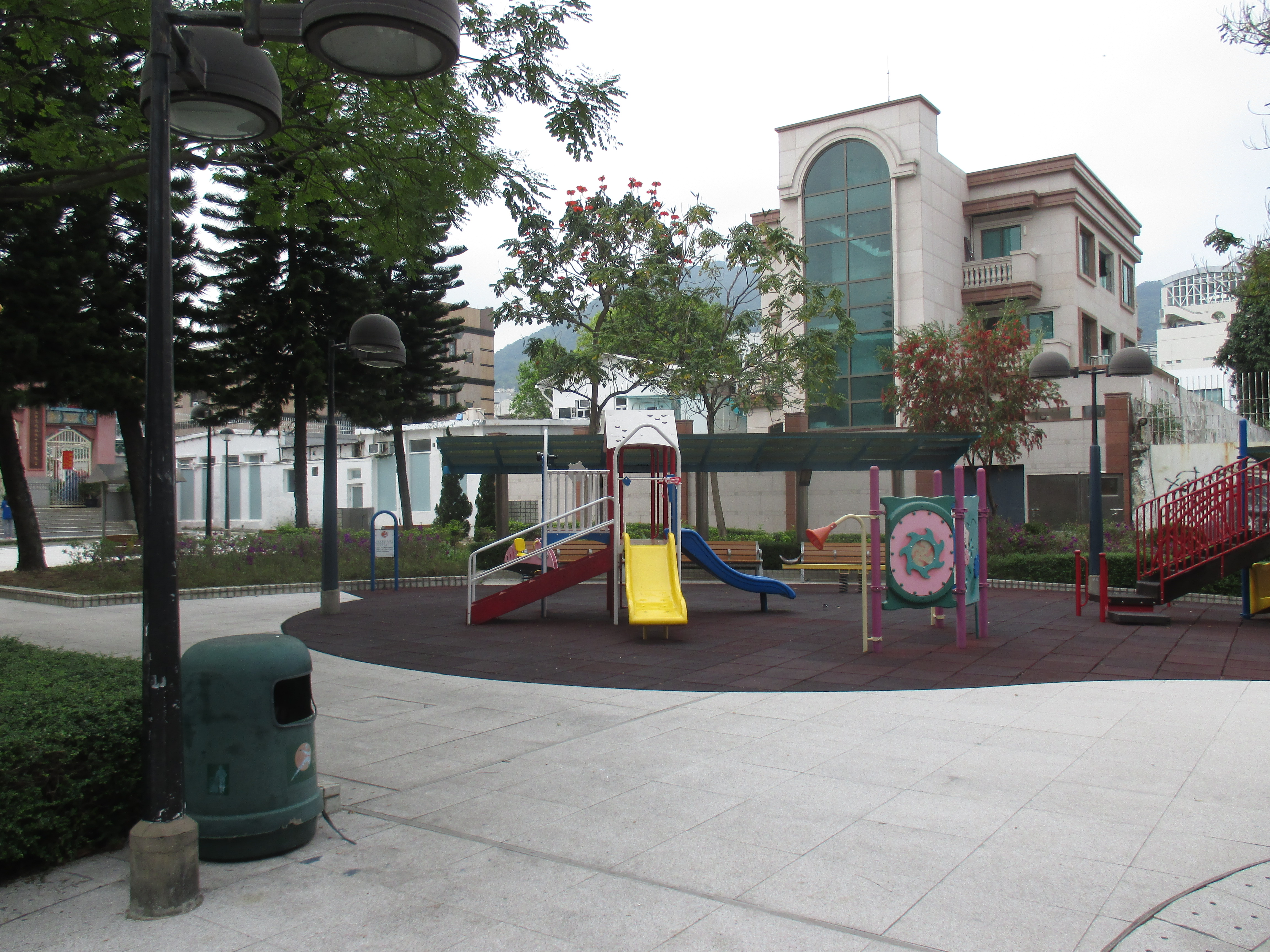 Rutland Quadrant Children's Playground